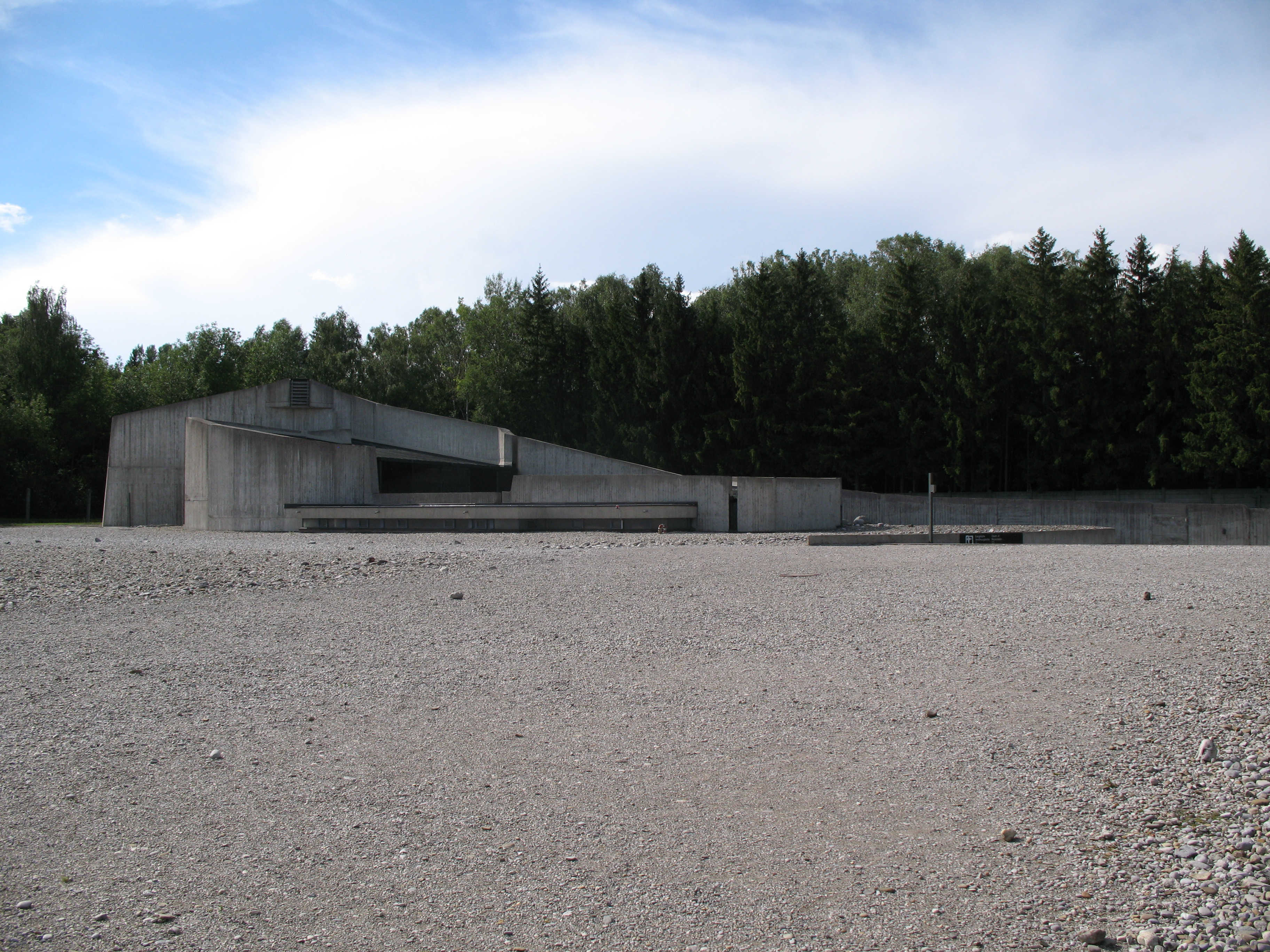 Protestant Church of Reconciliation, Dachau Concentration CampDachau, Germany